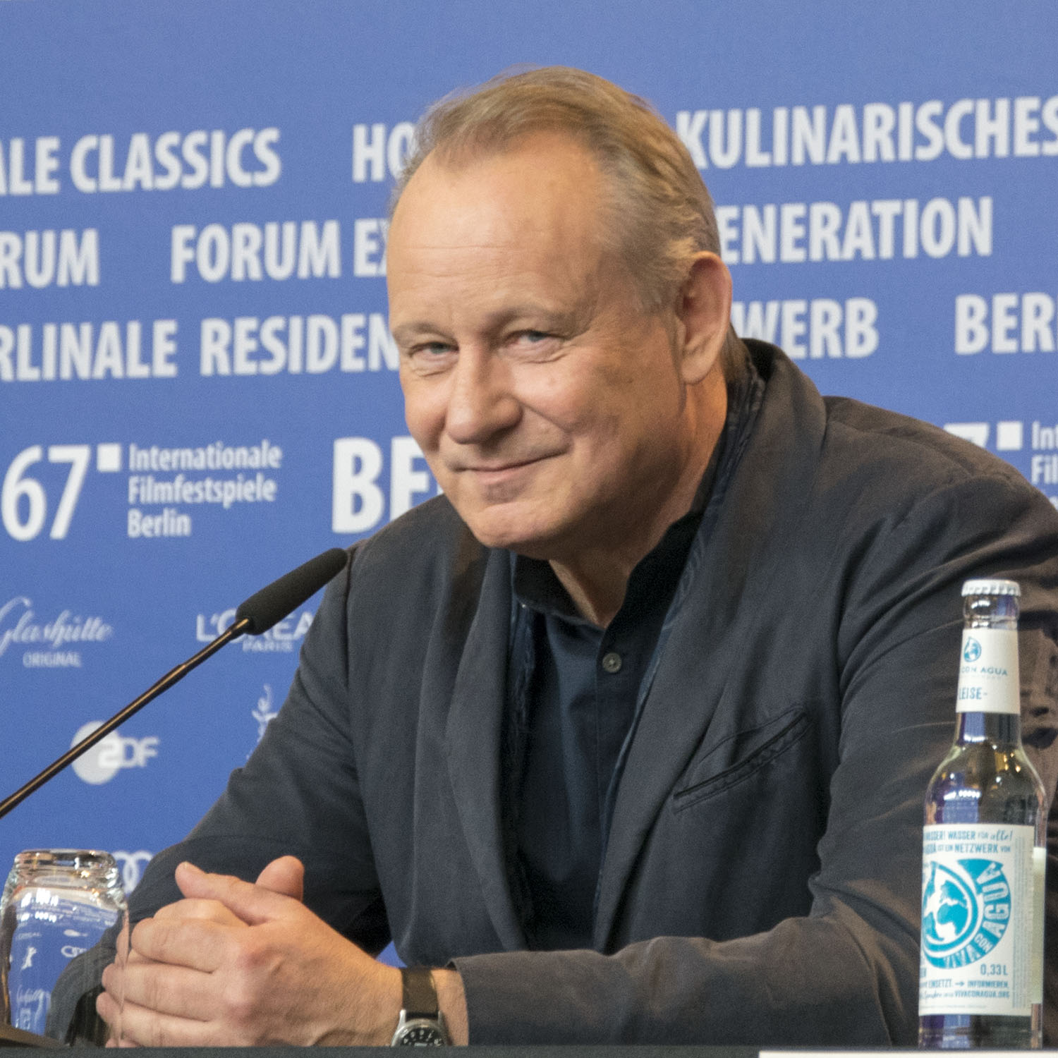 Stellan Skarsgård at the press conference of Return to Montauk at the 2017 Berlin International Film Festival